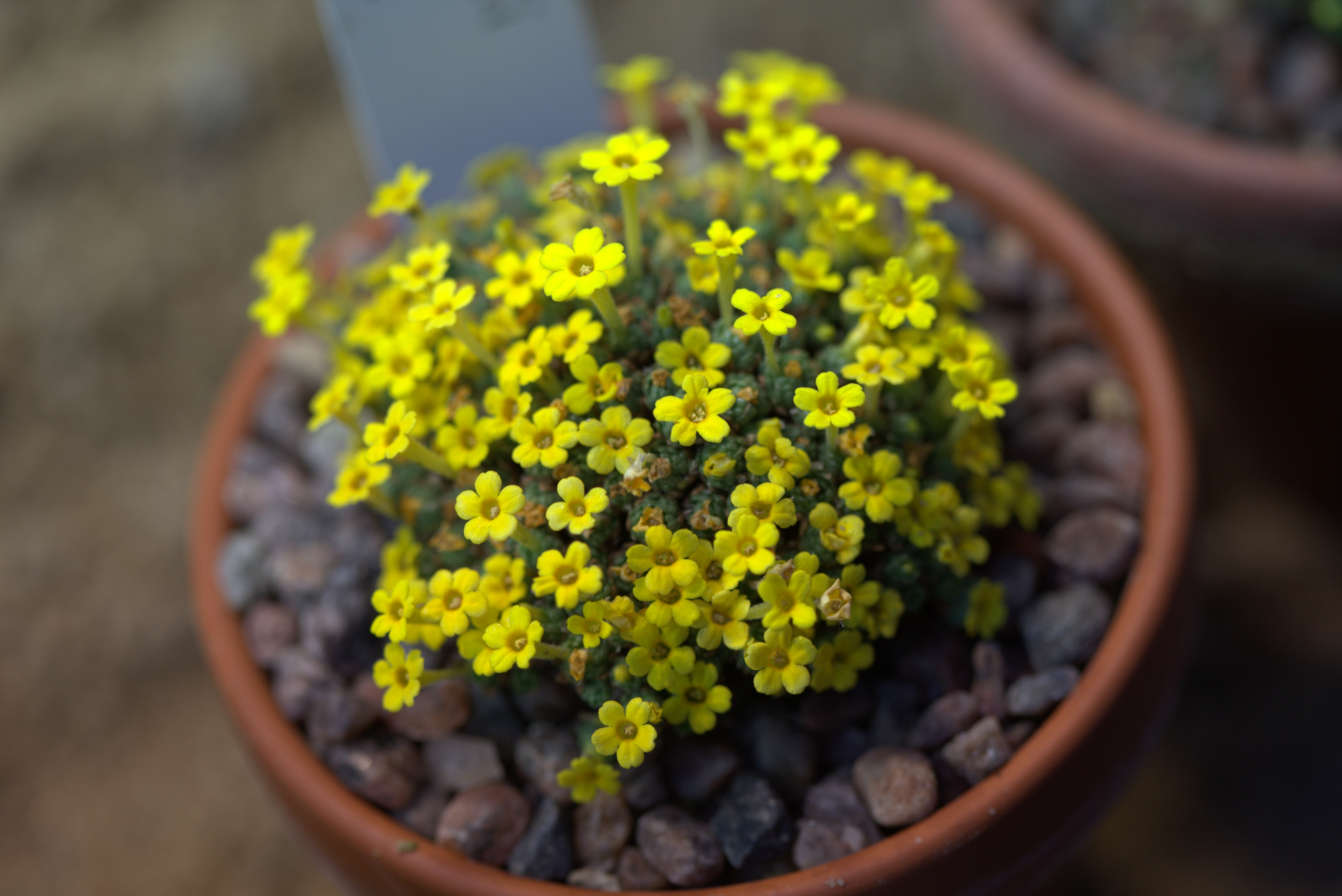 Dionysia haussknechtii at Gothenburg Botanical Garden in 2015. Plant id: 2012-1951